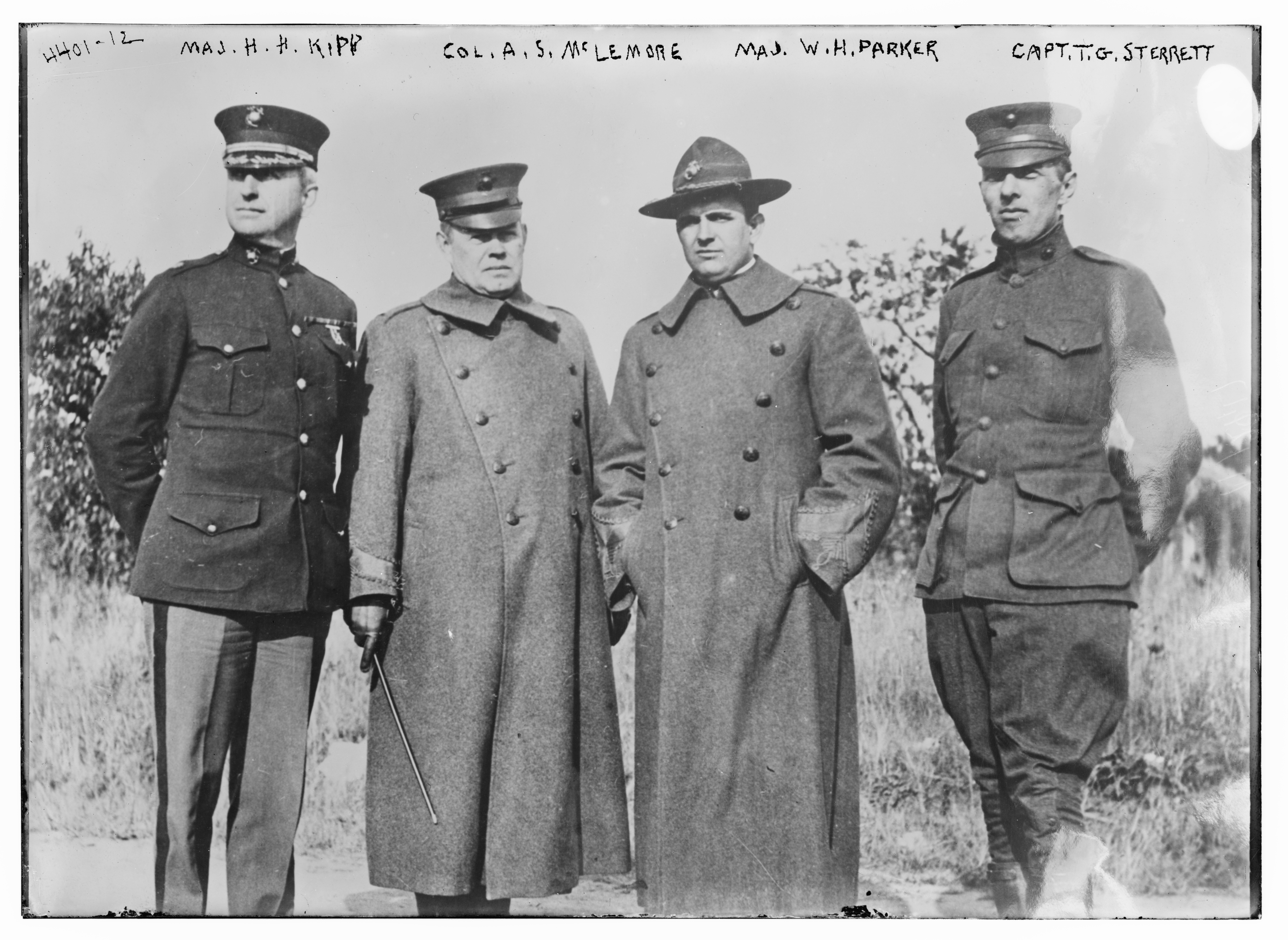 Maj. H.H. Kipp, Colonel Albert Sidney McLemore, Maj. W.H. Parker, and Capt. T.G. Sterrett in 1917